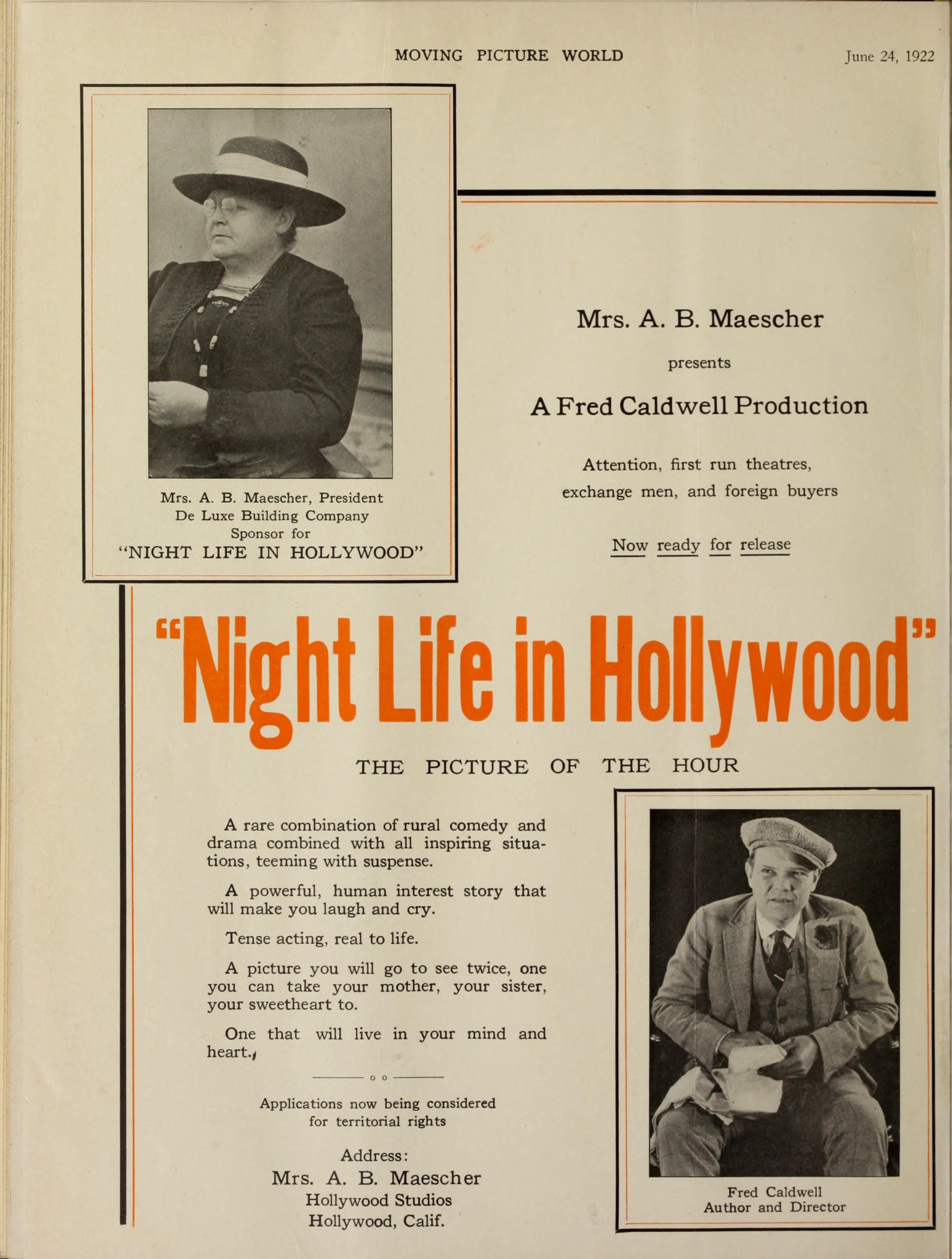 Advertisement for the American comedy film Night Life in Hollywood (1922) with producer Ada Bell Maescher and director Fred Caldwell, from Moving Picture World (Jun. 1922).